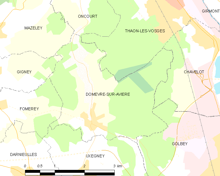 Map of French municipality Domèvre-sur-Avière